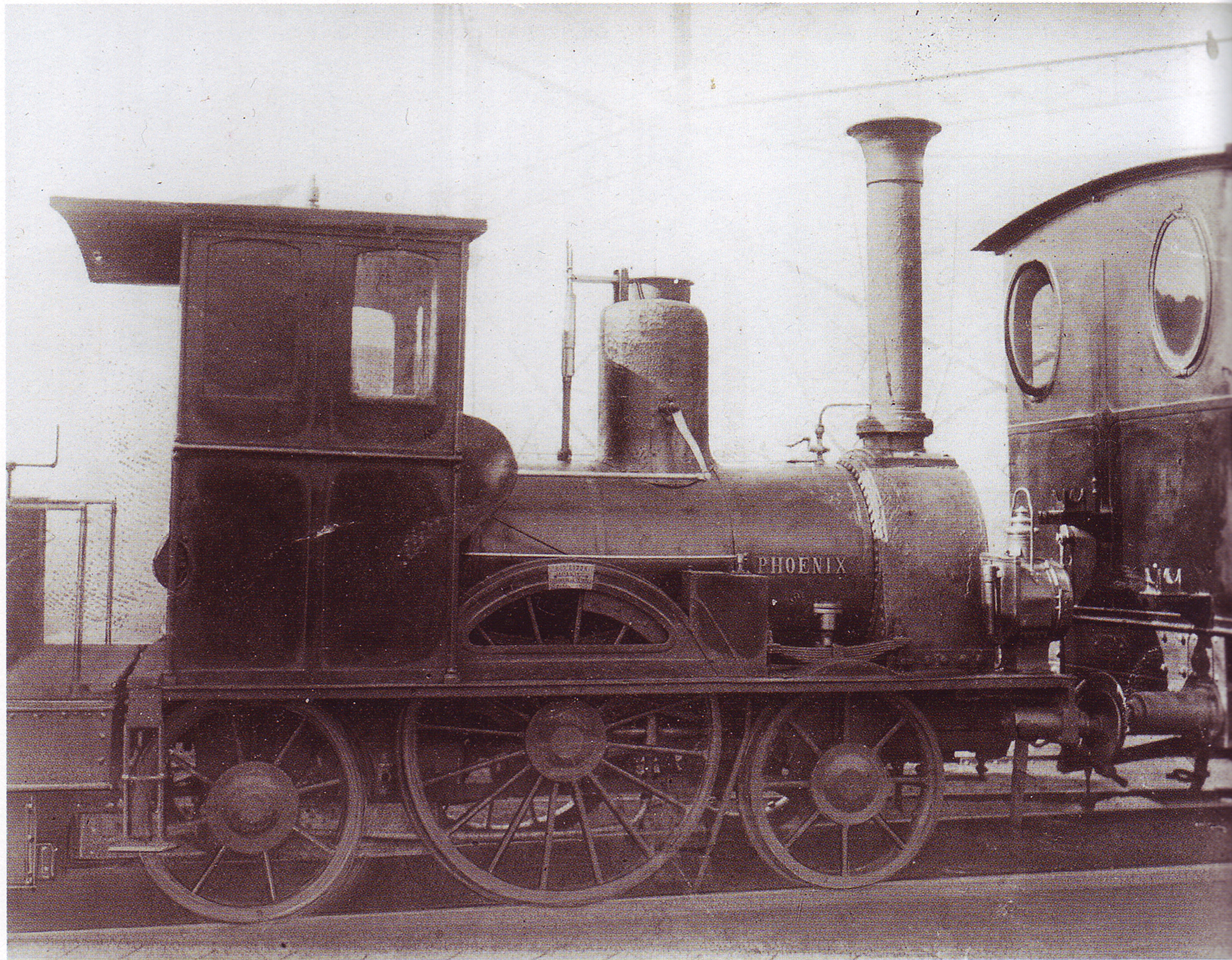 Steam locomotive Phoenix of the Bavarian Ludwig Railway, made out from the locomotive manufacturer Maffei in 1857